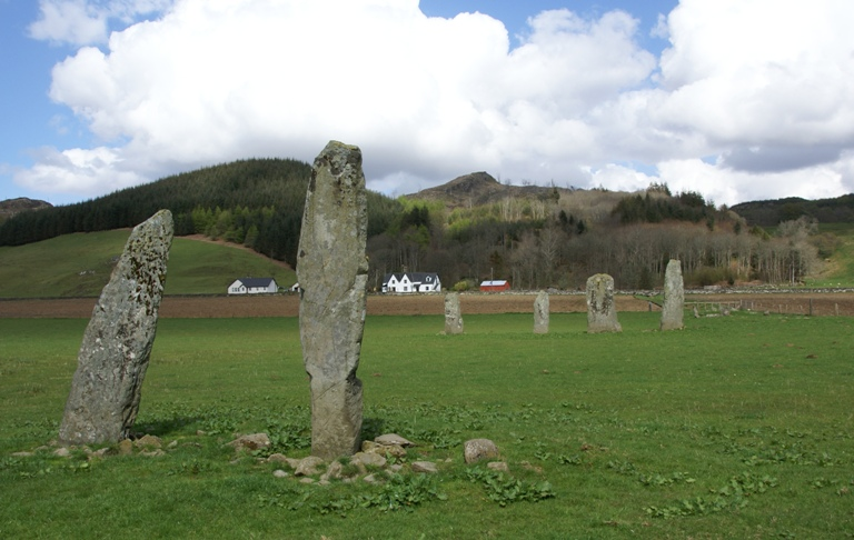 Ballymeanoch, Kilmartin Glen, Scotland - standing stones